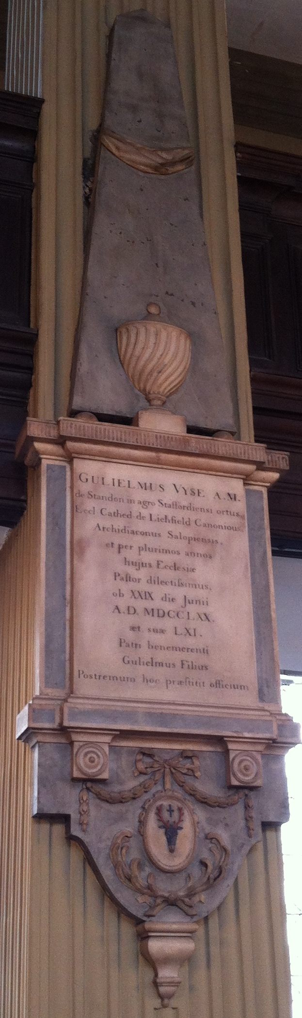 Memorial to William Vyse in Birmingham Cathedral. Arms of Vyse (of Standon, Staffordshire) below: Argent, a buck's head cabossed sable between the attires a cross of the last (Burke's General Armory, 1884, p.1060[1]) Seemingly shown here attired gules.